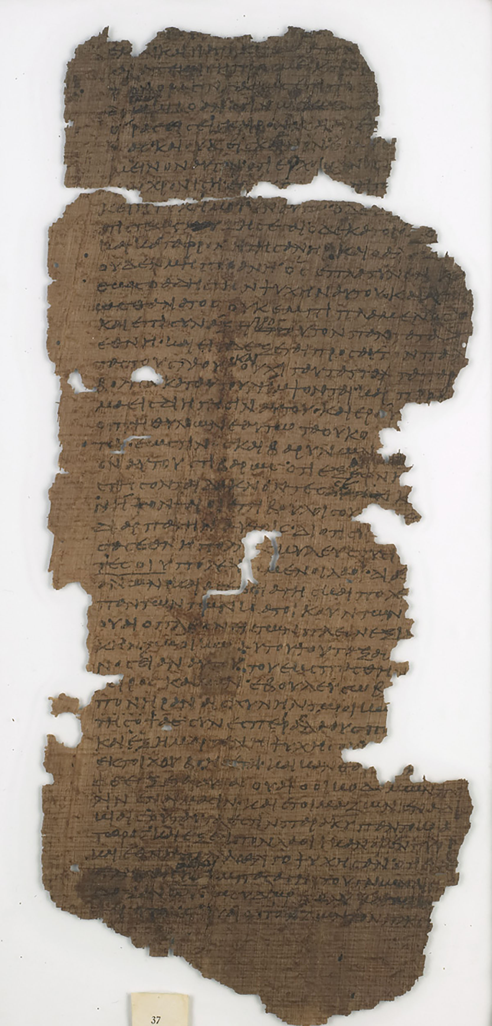 Ink on papyrus H: 29.5 W: 14.0 cm Egypt mid-3rd century